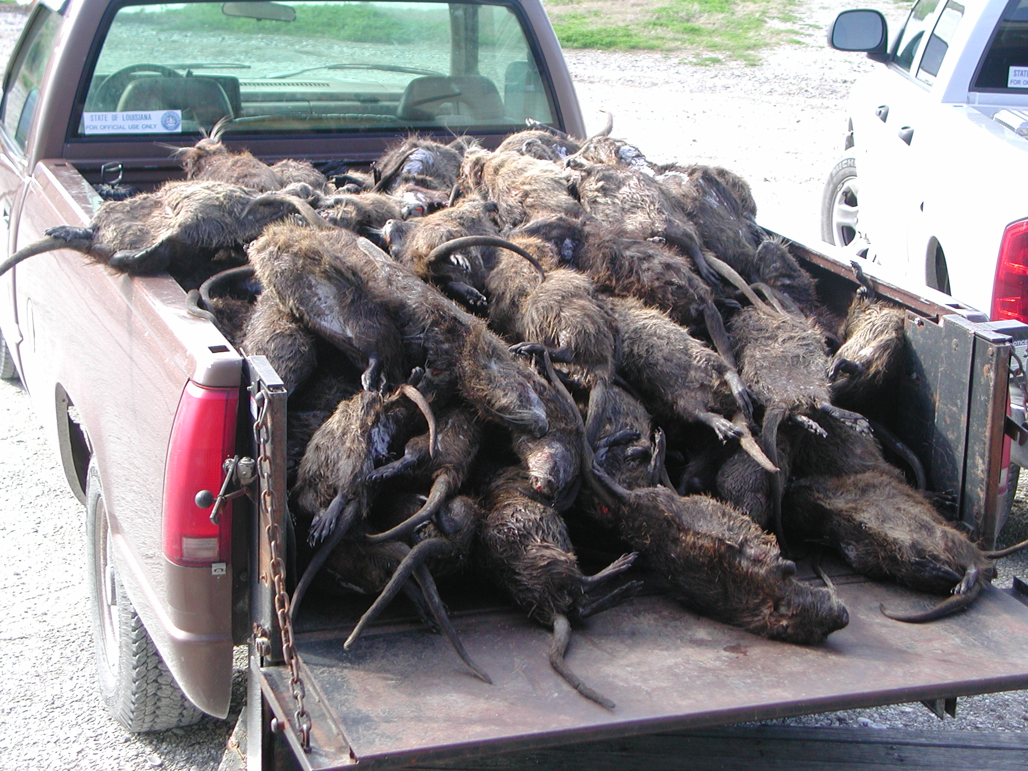 These nutria (a.k.a. 'coypus'- Myocastor coypus ) were killed as part of a population control program at Rockefeller Wildlife Management Area, Louisiana, USA. They were stored in a freezer for later use in a research project. Rockefeller WMA is located in Cameron Parish in western Louisiana on the Gulf of Mexico coast. Rockefeller WMA has a variety of fresh, intermediate, and brackish marshes. The management of water flows and salinity is an important tool in maintaining the diverse mixture of marsh for a variety of fish, shrimp, and waterfowl. Nutria, by their burrowing activities, weaken or compromise the levees that are important in the refuge's water management effort. When their populations are high enough nutria can also directly cause marsh loss, however, their populations rarely get that high at Rockefeller because of the high density of alligators (Alligator mississippiensis). The nutria on the back of the pickup were a couple days take by refuge sharp shooters and had been in a freezer for couple months (thus 'nutriasickels'). I asked the refuge staff to hold onto the nutria so my graduate student, Sara DeLozier, could remove their eyeballs as part of a study whereby she characterized the population's age distribution by examining lens weight. Nutria populations are generally managed by alligators and fur trappers, but occasionally shooting becomes necessary when the nutria populations get too large, or are too concentrated around the levee structures or marsh restoration sites. Nutria have become an integral part of the biological community along coastal Louisiana and are an important food source for alligators.